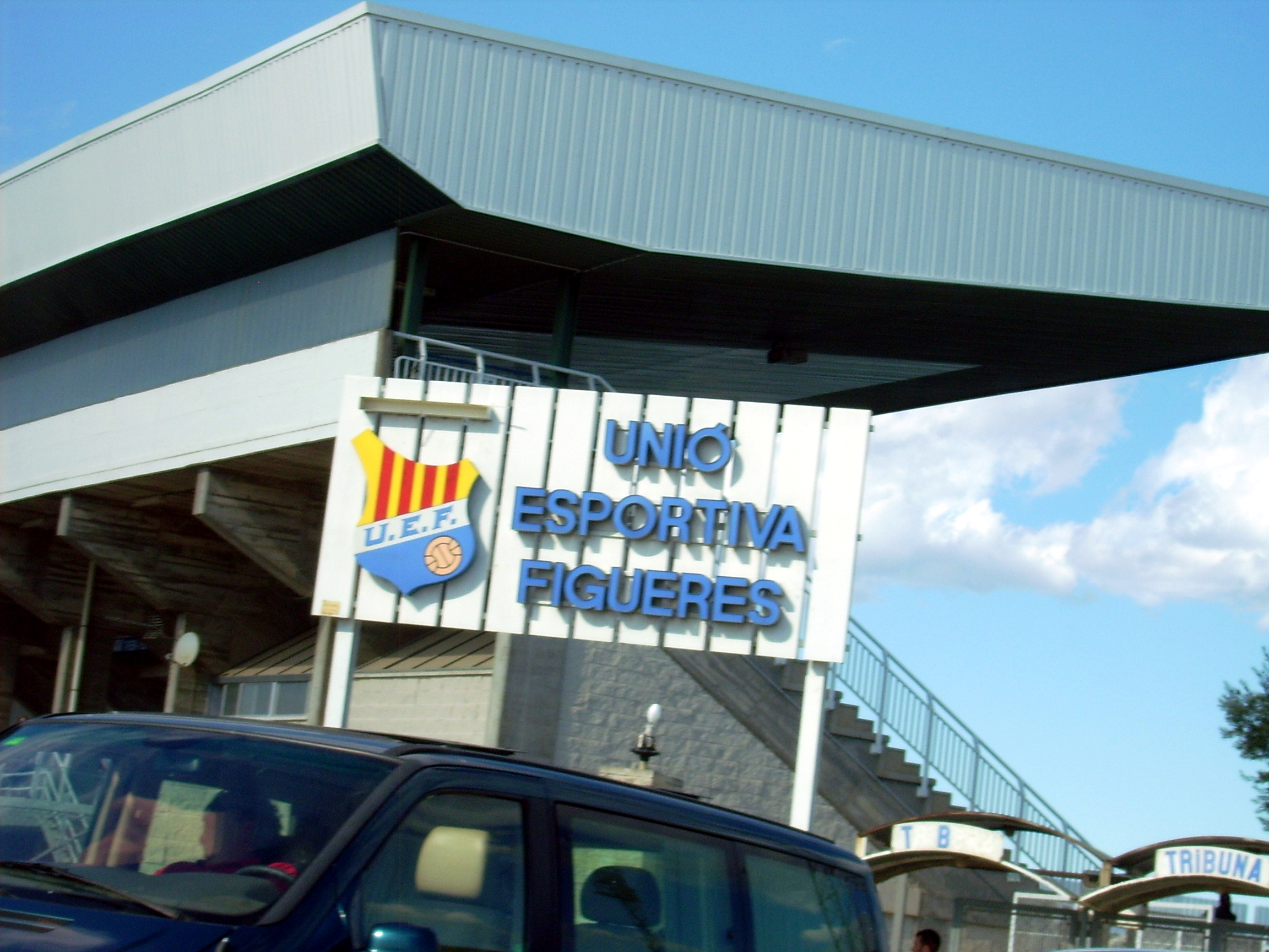 picture of the stadium of UE Figueres